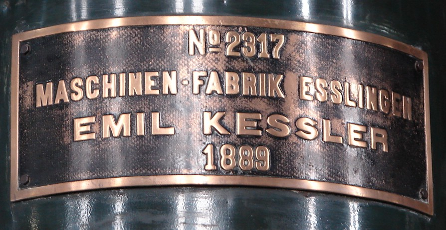 NZASM 14 Tonner no. 1 (0-4-0T)Location: George, Western Cape